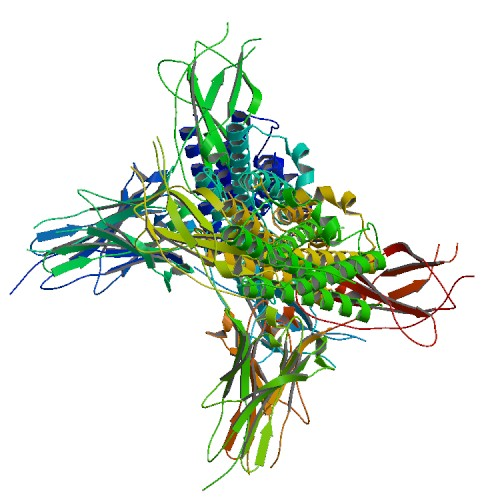 Structure of filgrastim